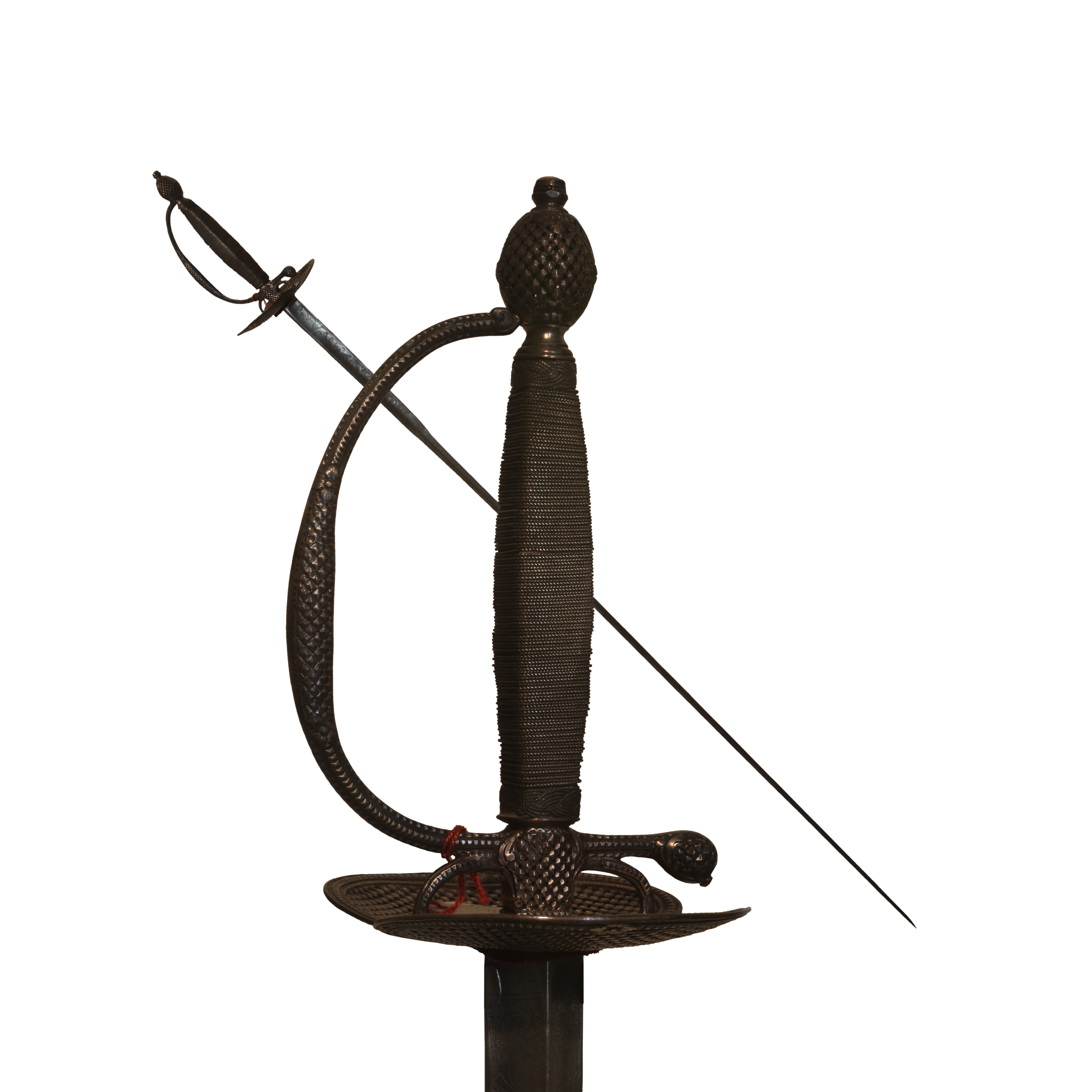 Colichemarde sword. Silver guard, 18th century. On display at Vevey historical museum, accession number 1205